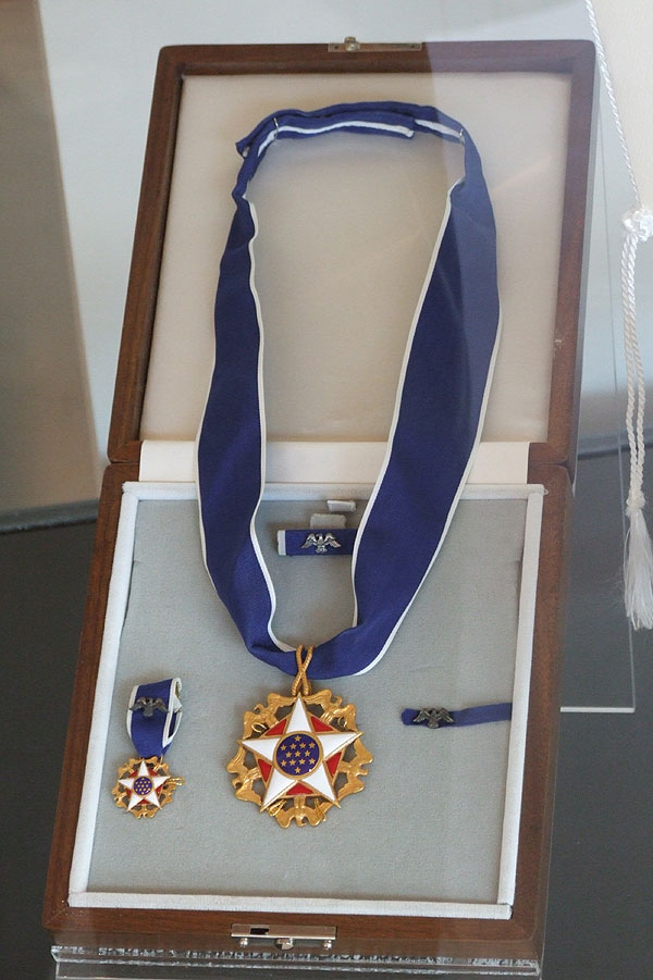 Muhammad Ali's Presidential Medal of Freedom. Photo snapped by Bryan Bush and given to me to upload under GFDL. I cropped, reduced and sharpened the image, and release changes under GFDL.